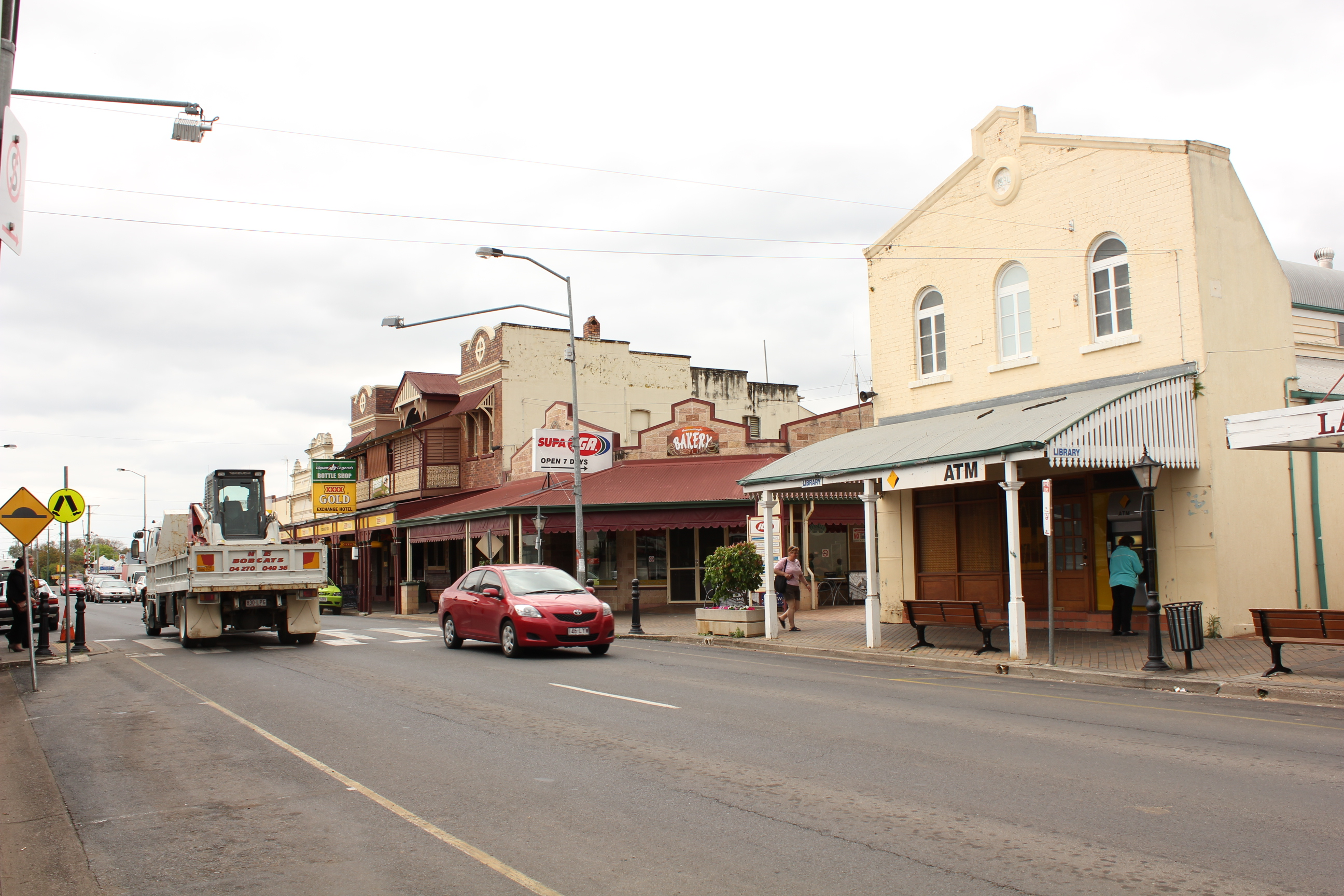 The township of Laidley in 2011.